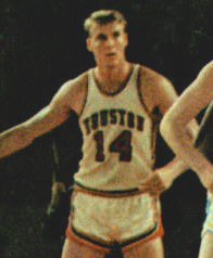 Houston's Ken Spain at the Astrodome in Houston during the 1968 Game of the Century